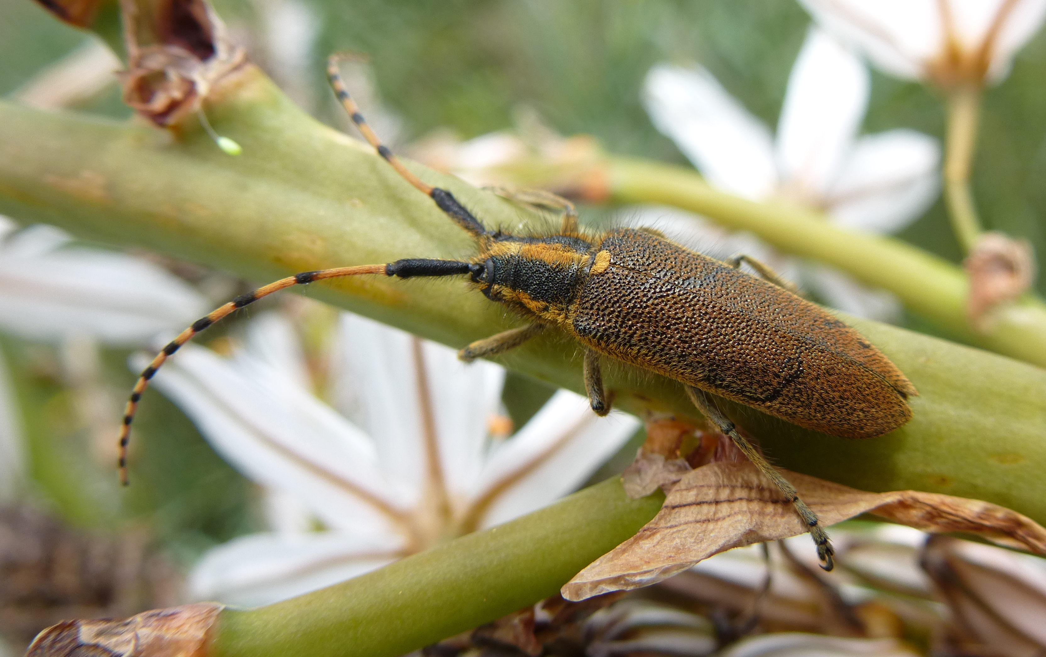 Agapanthia asphodeli from Corte, Corsica on his host plant (Asphodelus sp.).